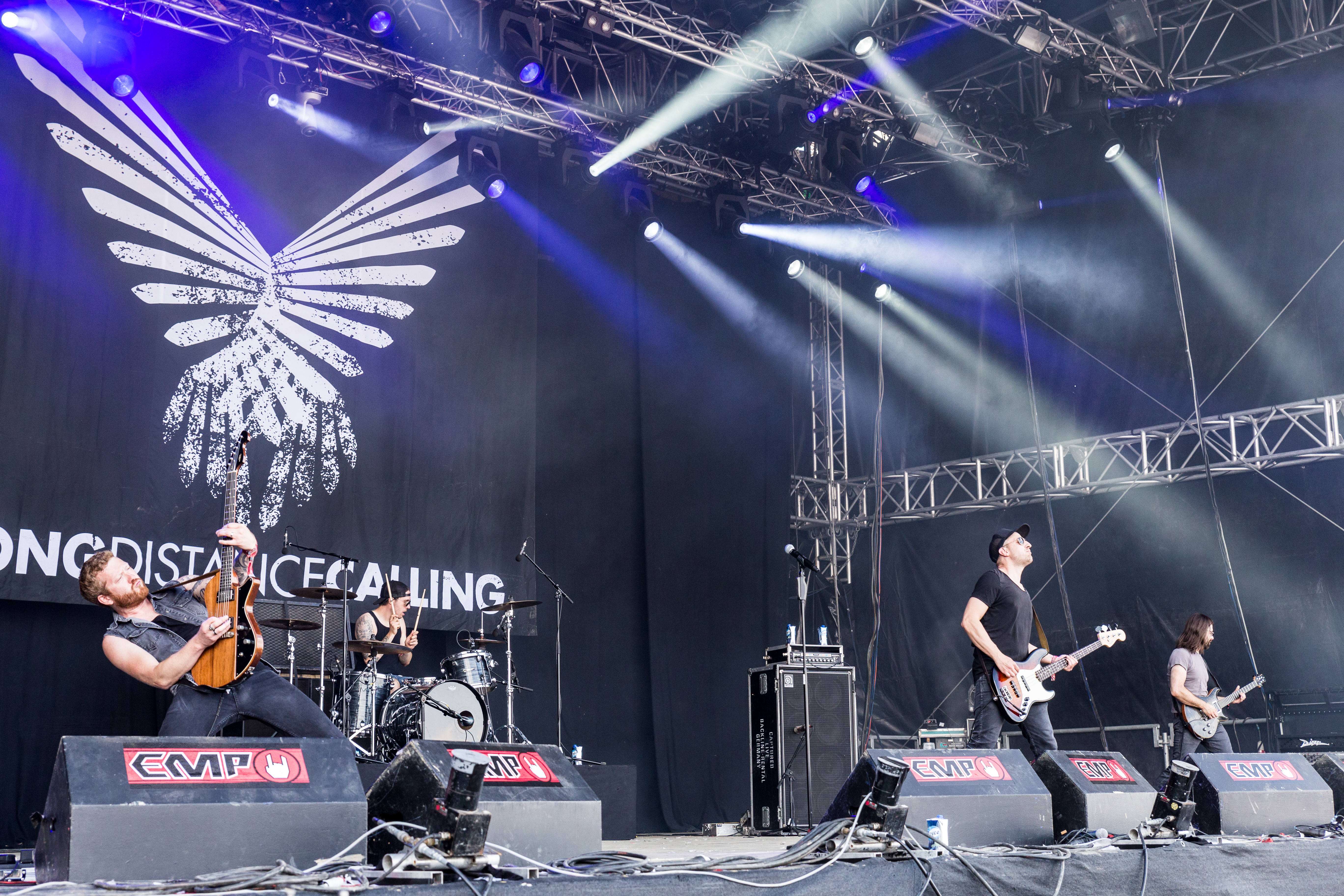 The German post-rock band Long Distance Calling at the Summer Breeze Open Air 2017 in Dinkelsbühl/Germany.